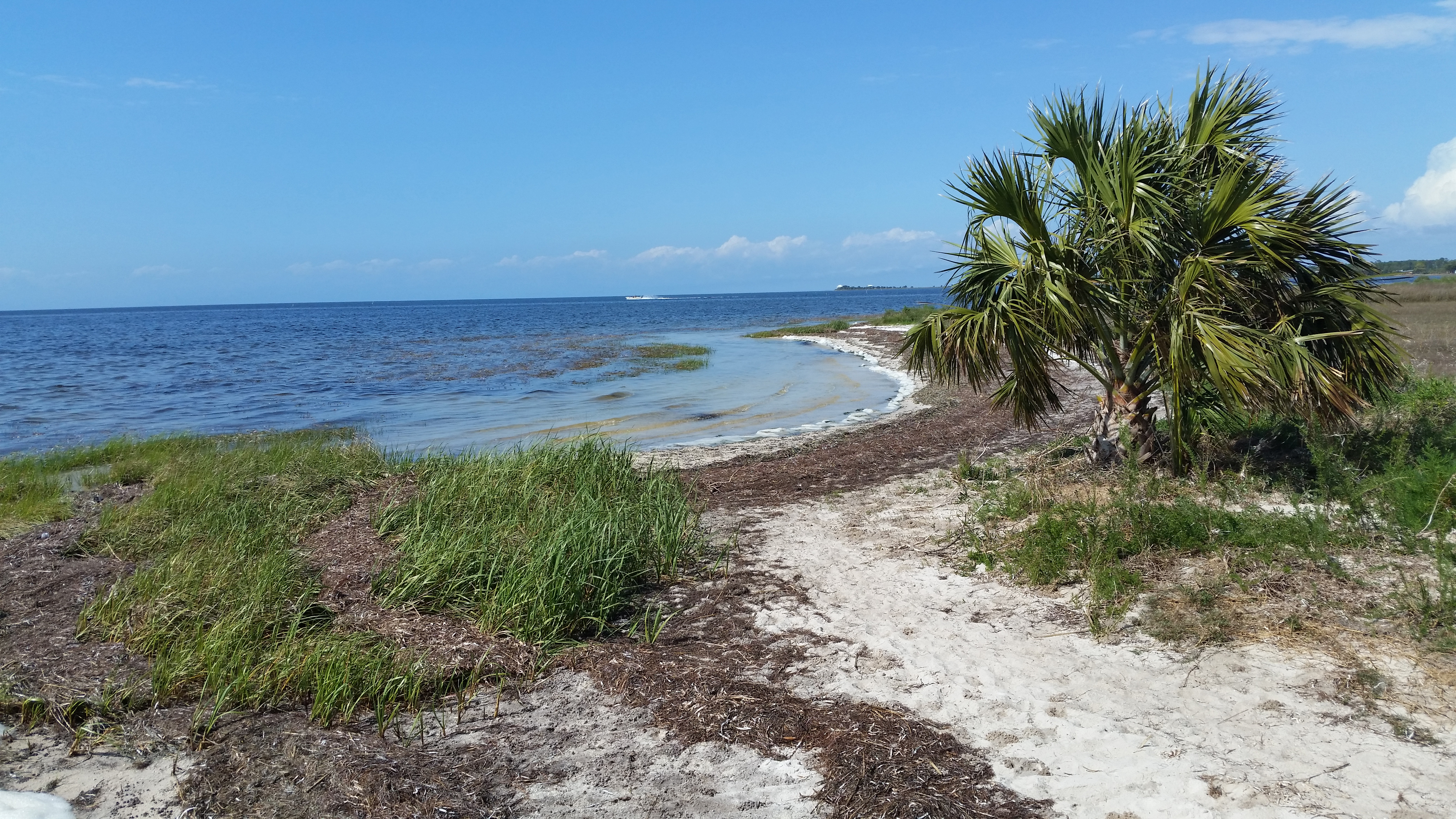 Keaton Beach is home to one of Florida's most natural and undeveloped coastlines.